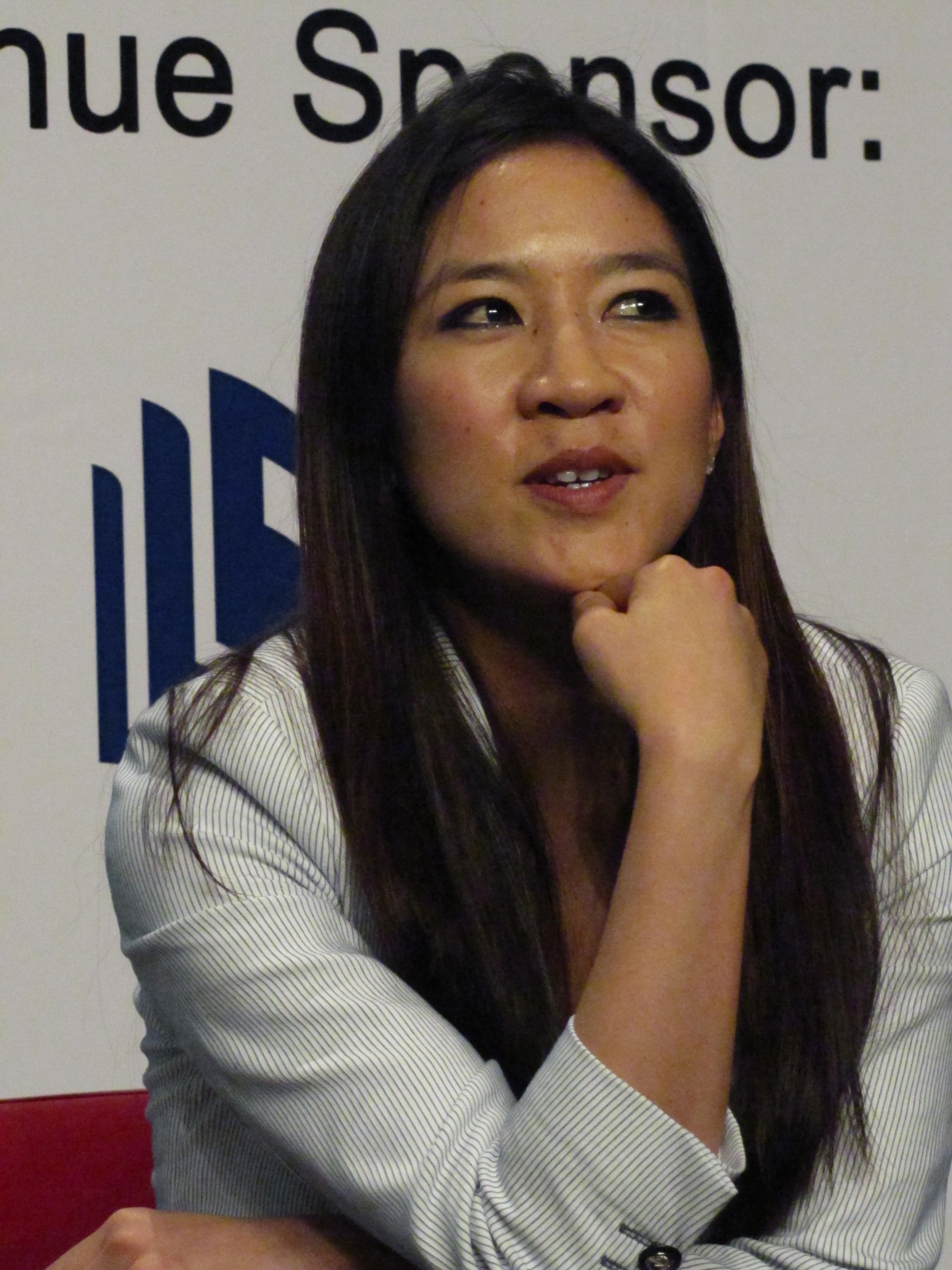 Michelle Kwan at the Pod, The National Library Singapore